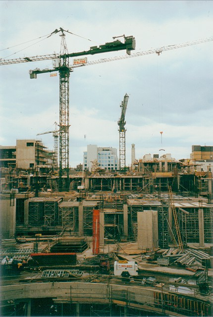 Construction of the WestQuay shopping centre